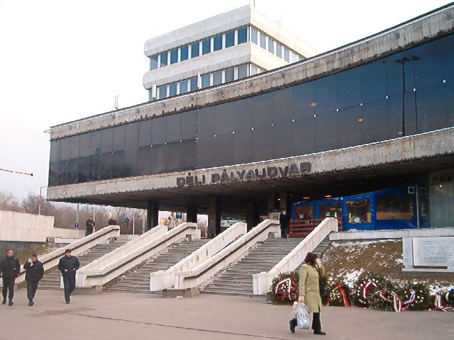 Southern Railway Station, Budapest, Hungary